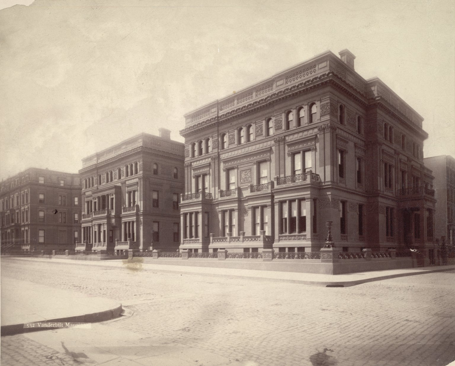 The "Triple Palace" at 640 & 642 5th Avenue and 2 West 52nd Street, New York, NY, by John Butler Snook, Architect